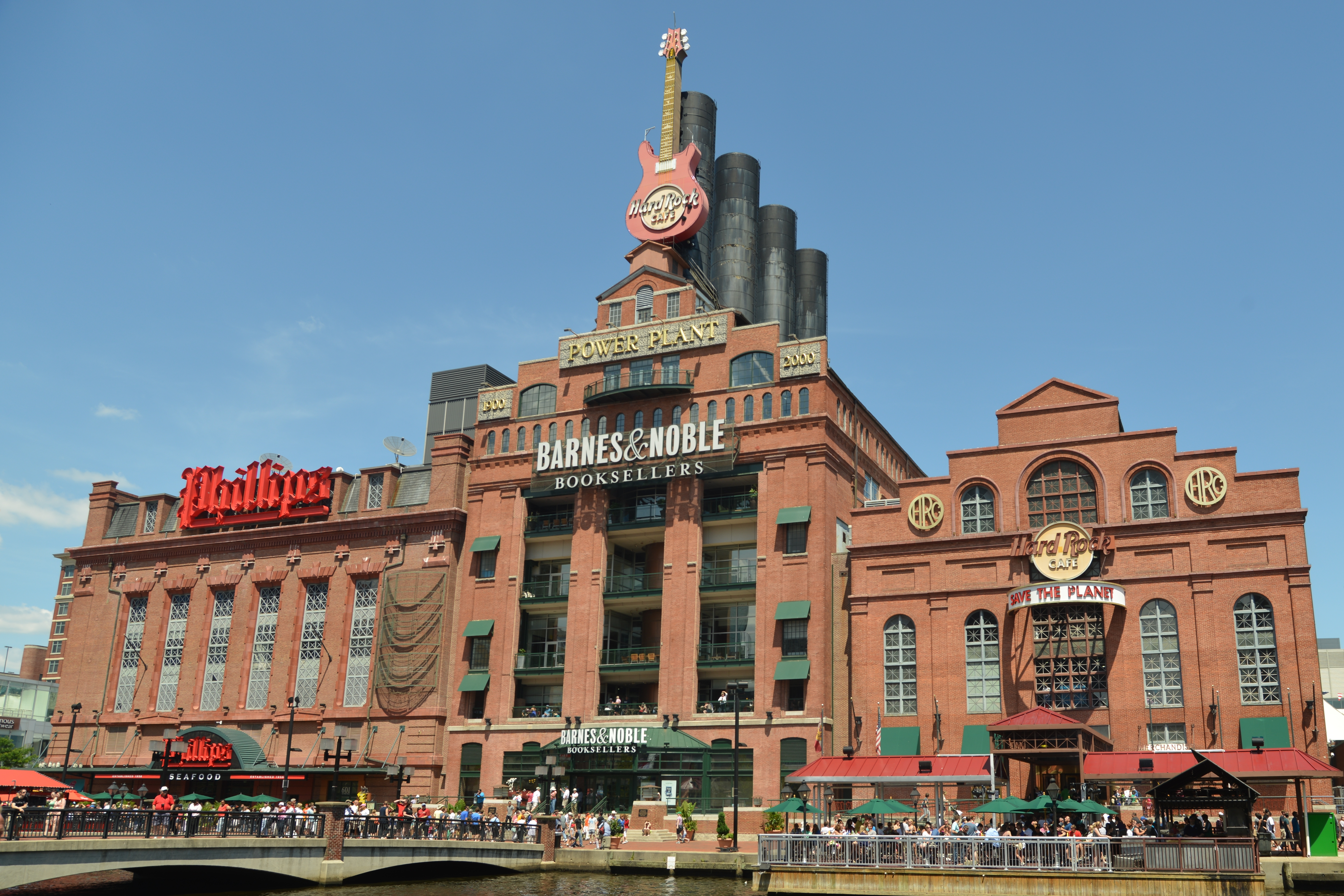 The historic Pratt Street Power Plant building, Hosting Barnes & Noble booksellers, Hard Rock CAfe, and Phillips Seafood.